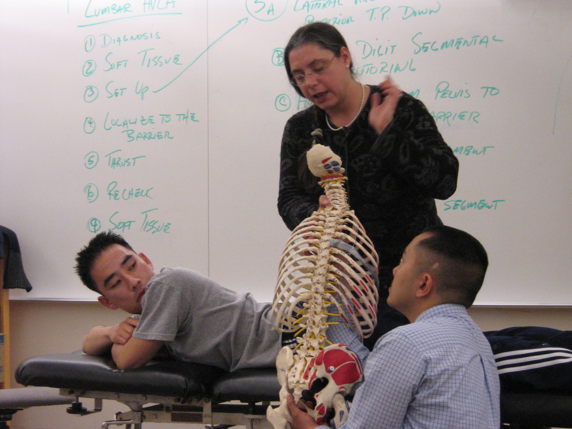 A physician professor and med students learn a technique of Osteopathic manipulative medicine at Touro University College of Osteopathic Medicine, in Vallejo, California, United States.